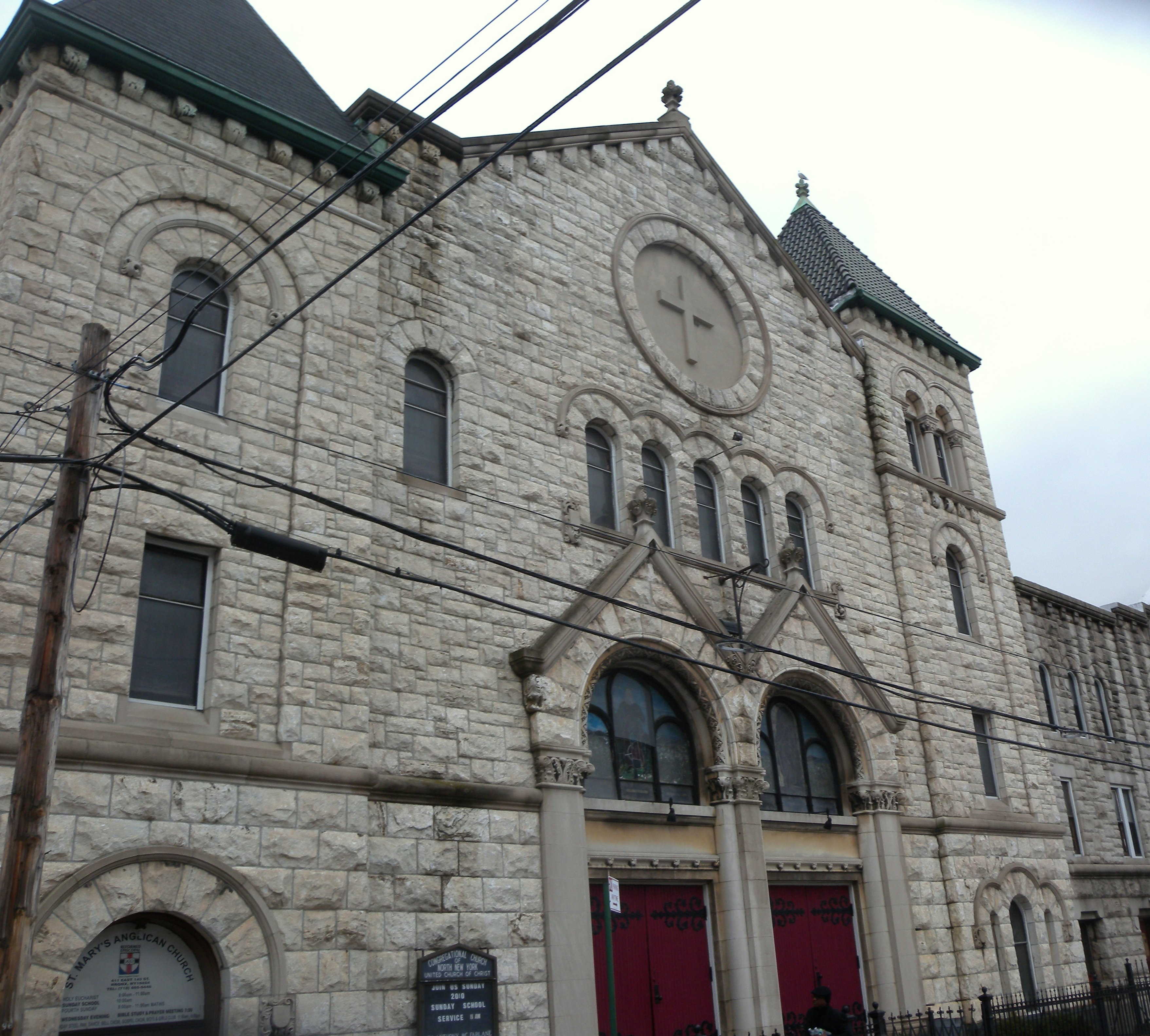 Looking east across 143rd Street at United Church of Christ on a rainy midday. ZIP 10454.